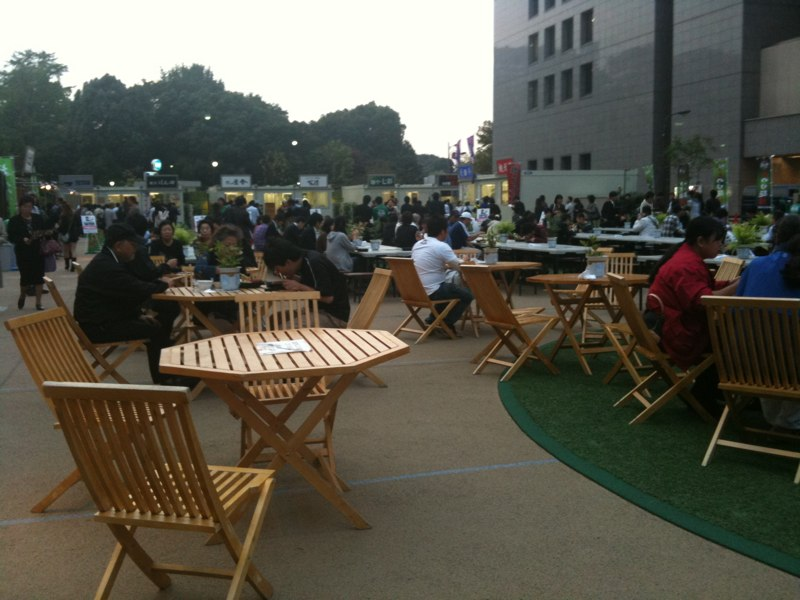 Dai tsukemen haku 2009. Hibiya patio.